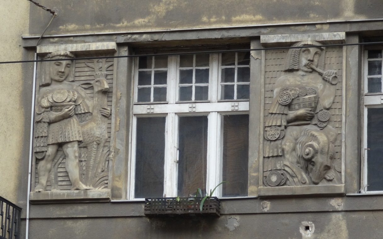 37 Népszínház street – ornamentation next to the window 2 in 2017